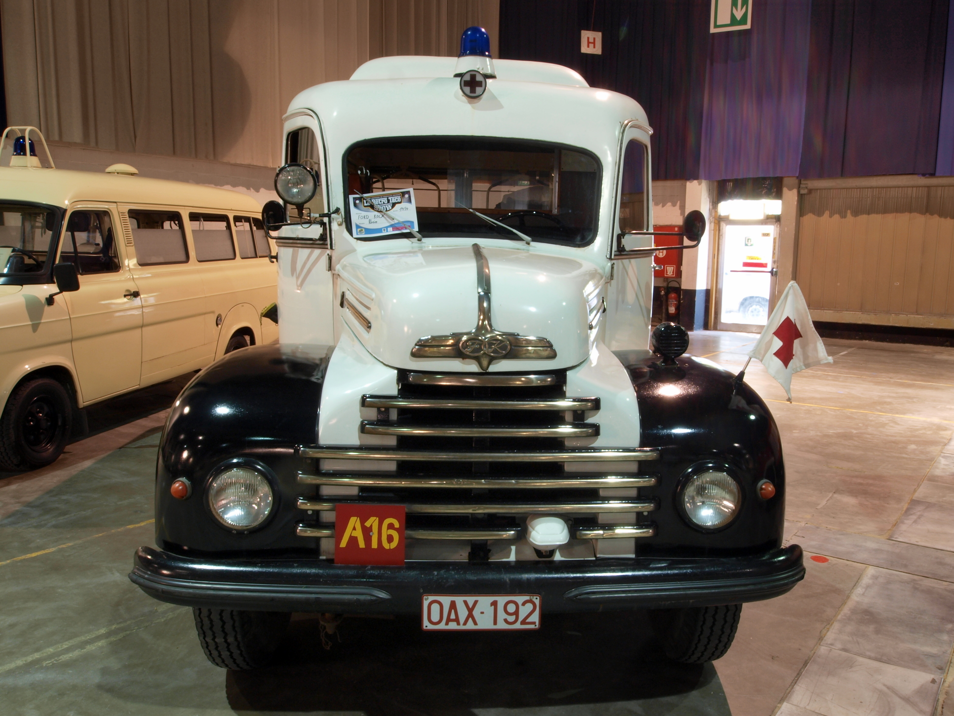 Ford Koln 1954 Ambulance